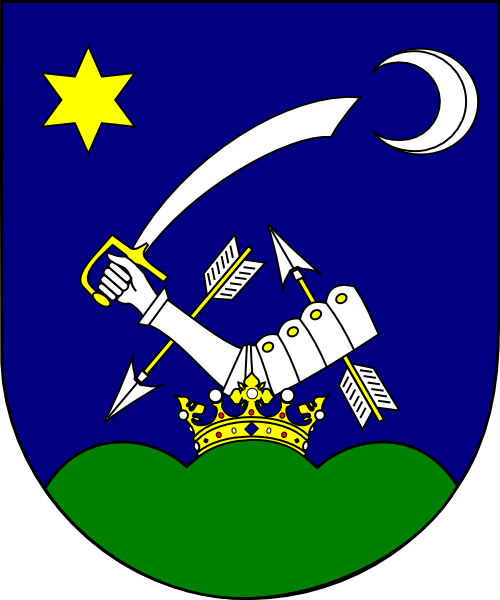 Coat of arms (shield only) of Miklós Kondé, bishop of Beograd, Serbia (1792 - 1800), bishop of Oradea Mare, Romania (1800 - 1802).